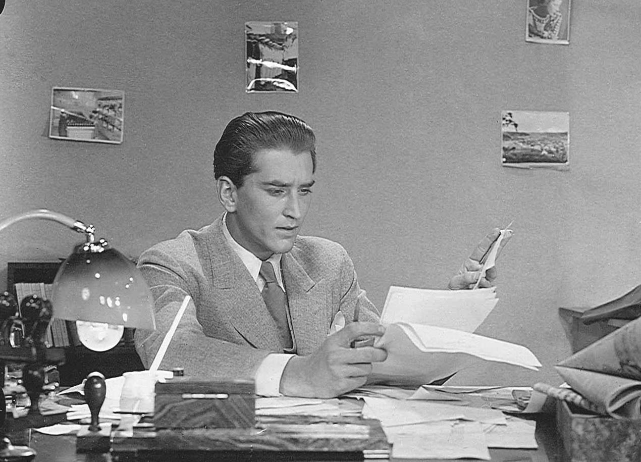 Lauritz Falk (1909-1990), Swedish-norwegian actor, director and painter; seen here in the 1936 film Flickorna på Uppåkra.